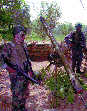 Hezbollah guerrillas.